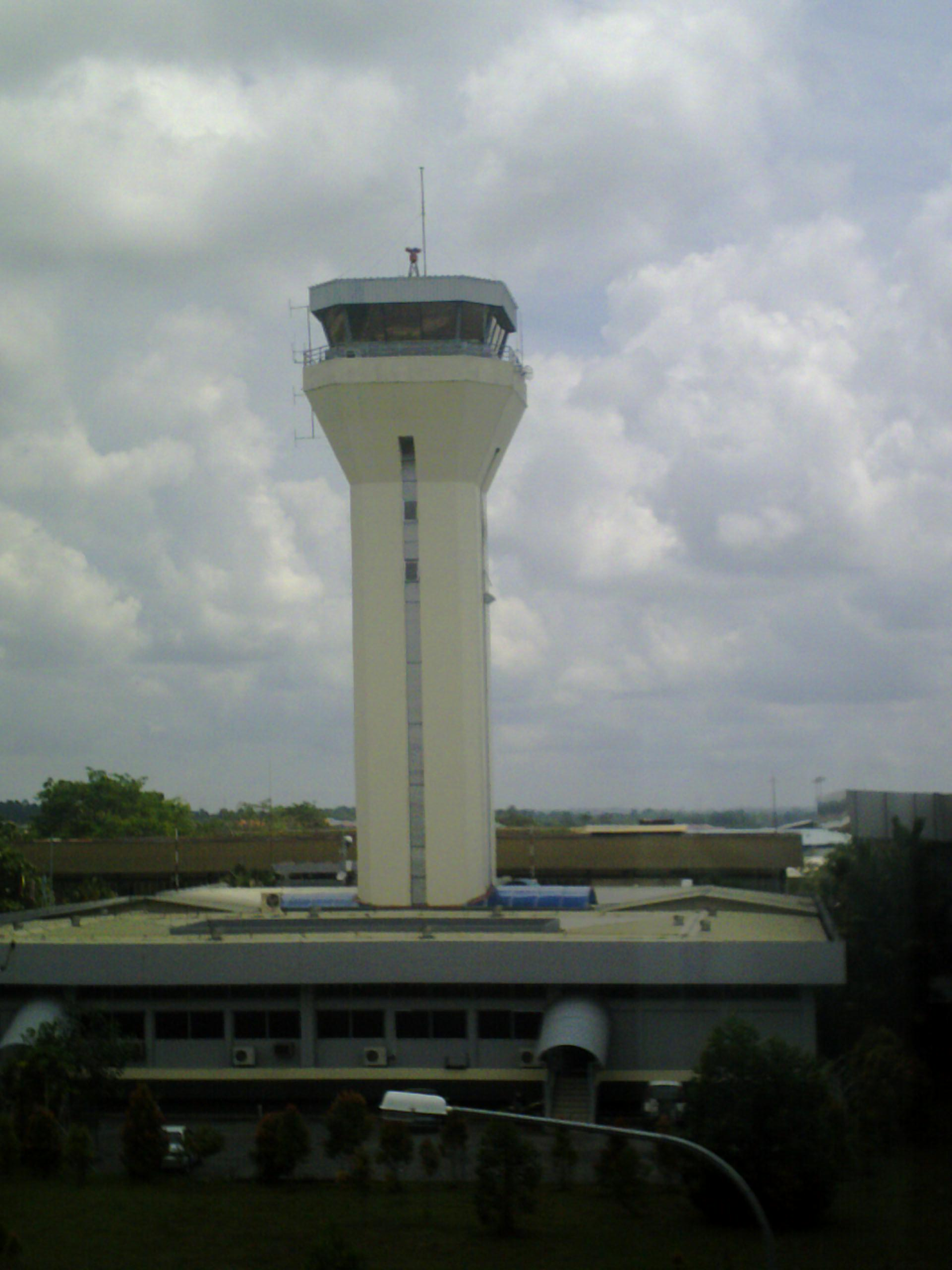 Mike